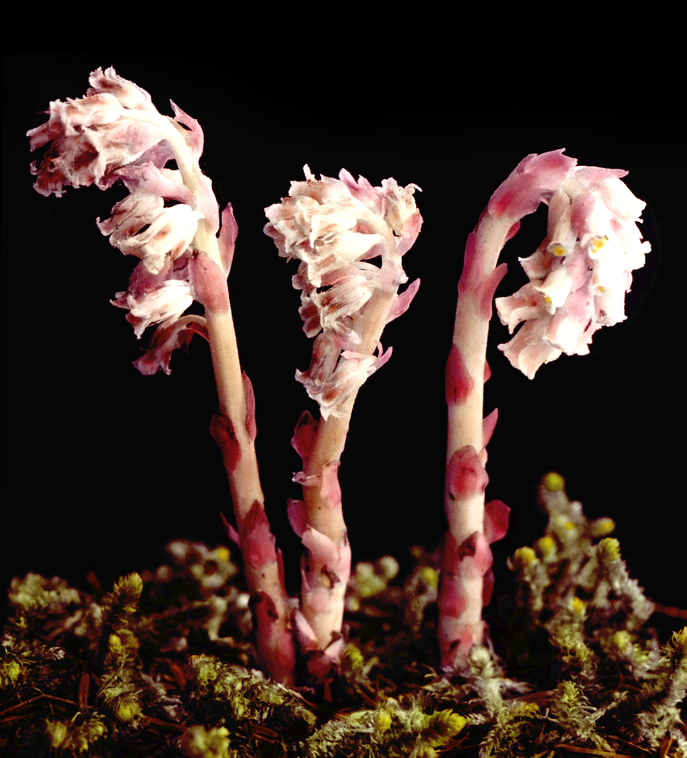 From the William Copeland McCalla fonds, PR2007.0257/56.